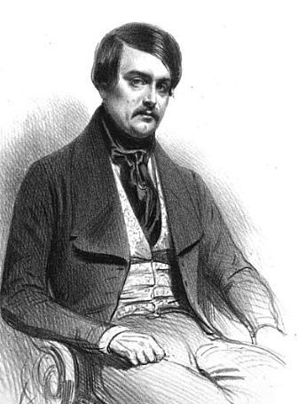 Potrait of Alphonse Royer